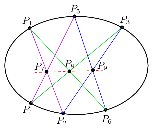 Pascal Theorem: 6 points